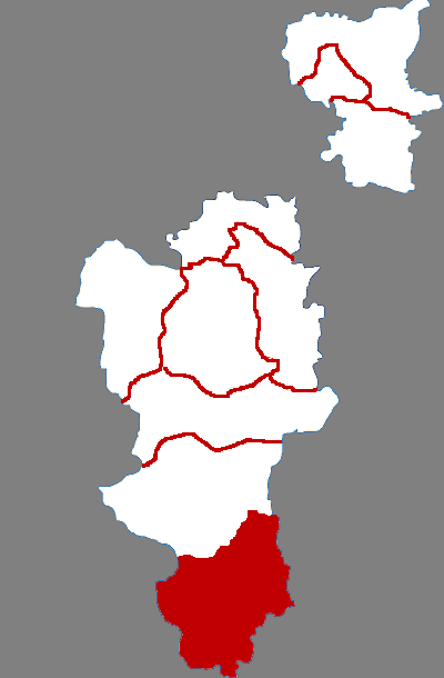 Location of Dacheng county in Langfang City, China